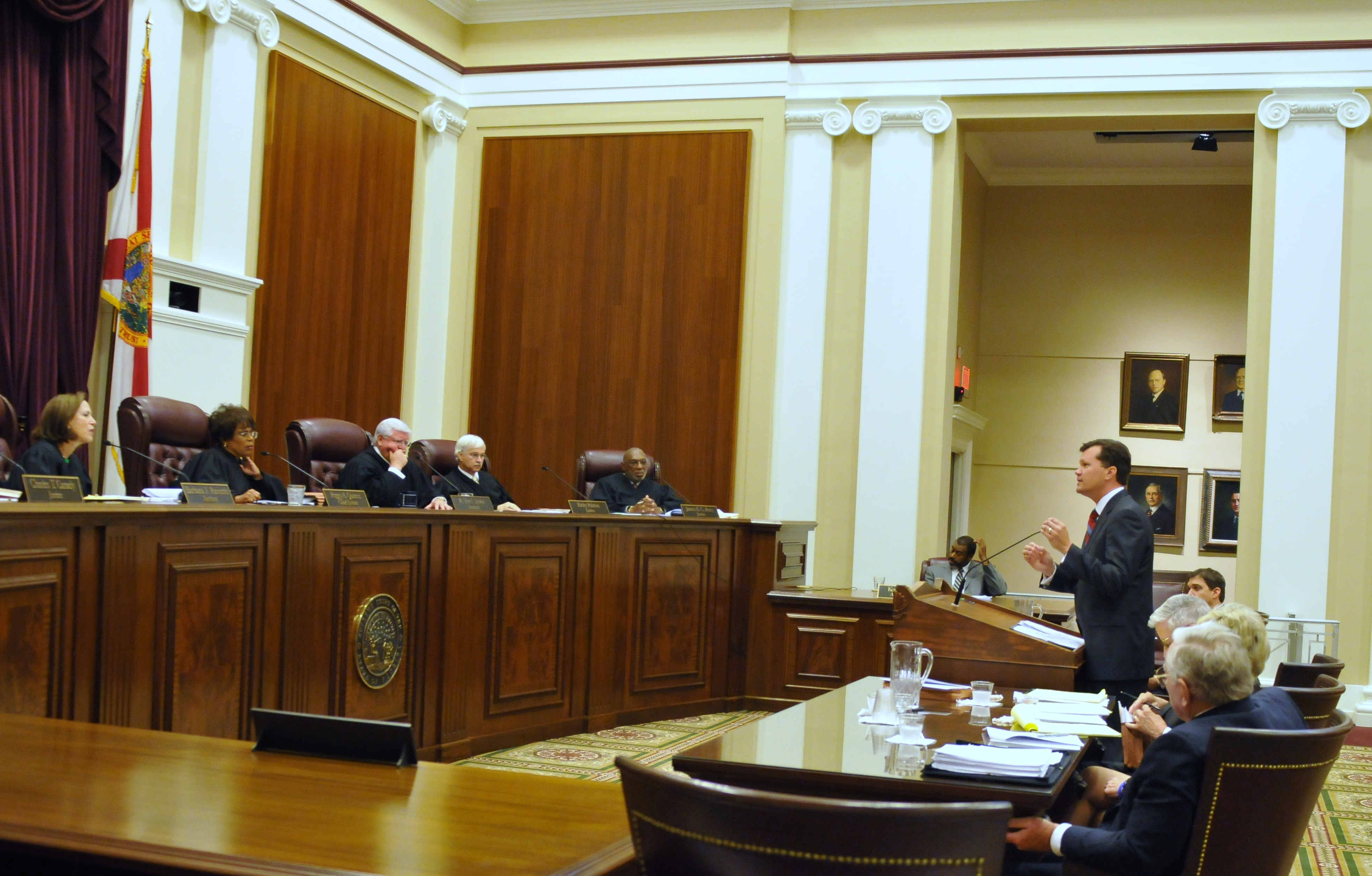 Oral argument before the Florida Supreme Court in Pleus v. Crist.